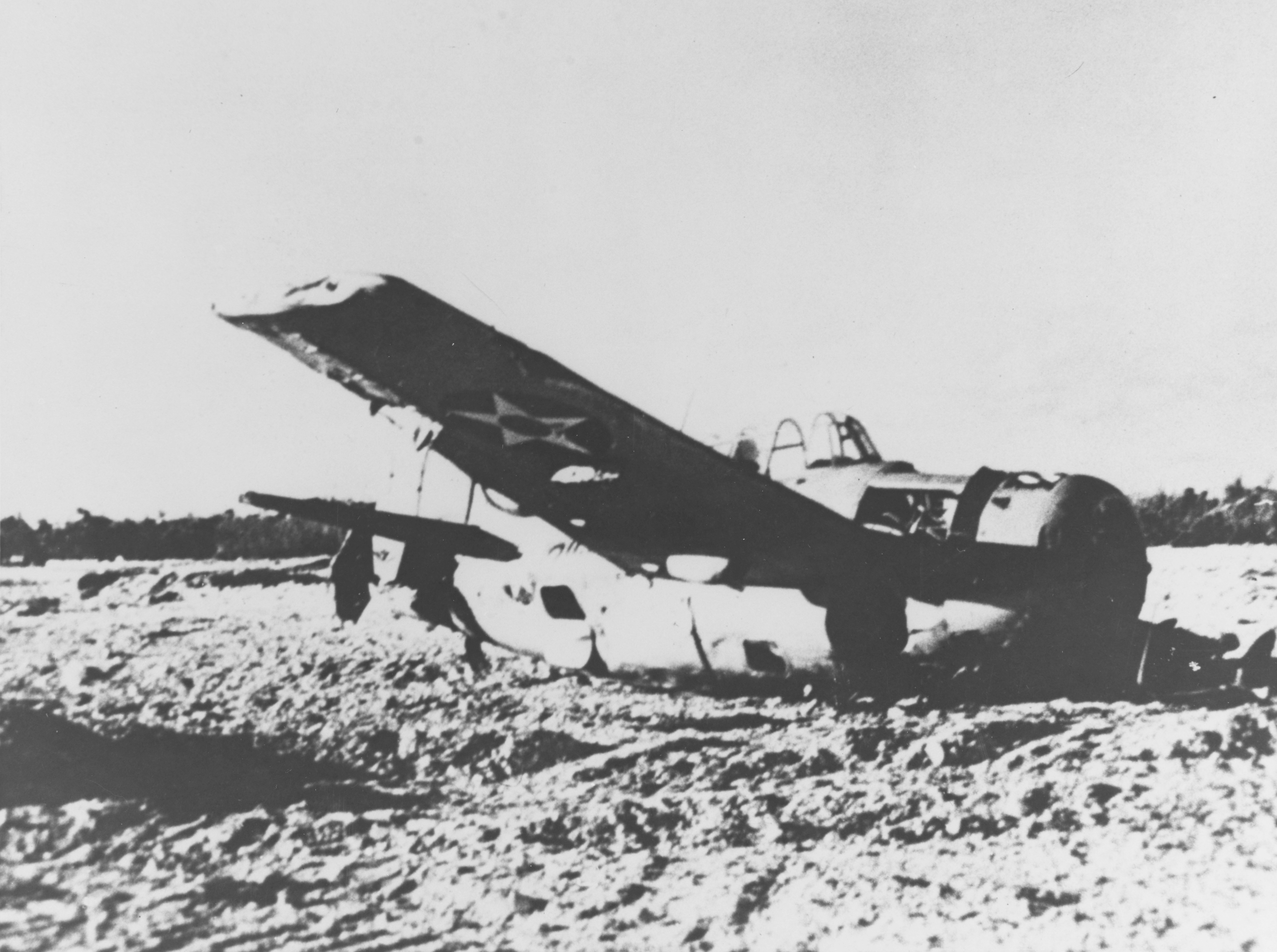 Wreckage a U.S. Marine Corps Grumman F4F-3 Wildcat from Marine fighter squadron VMF-211 on Wake Island. This was probably the plane of Capt. Freuler, on the beach where he crash-landed it on 22 December 1941, after he had destroyed a B5N Kate in aerial combat. Bullets penetrated his fuselage, vacuum tank, bulkhead, seat, and parachute.